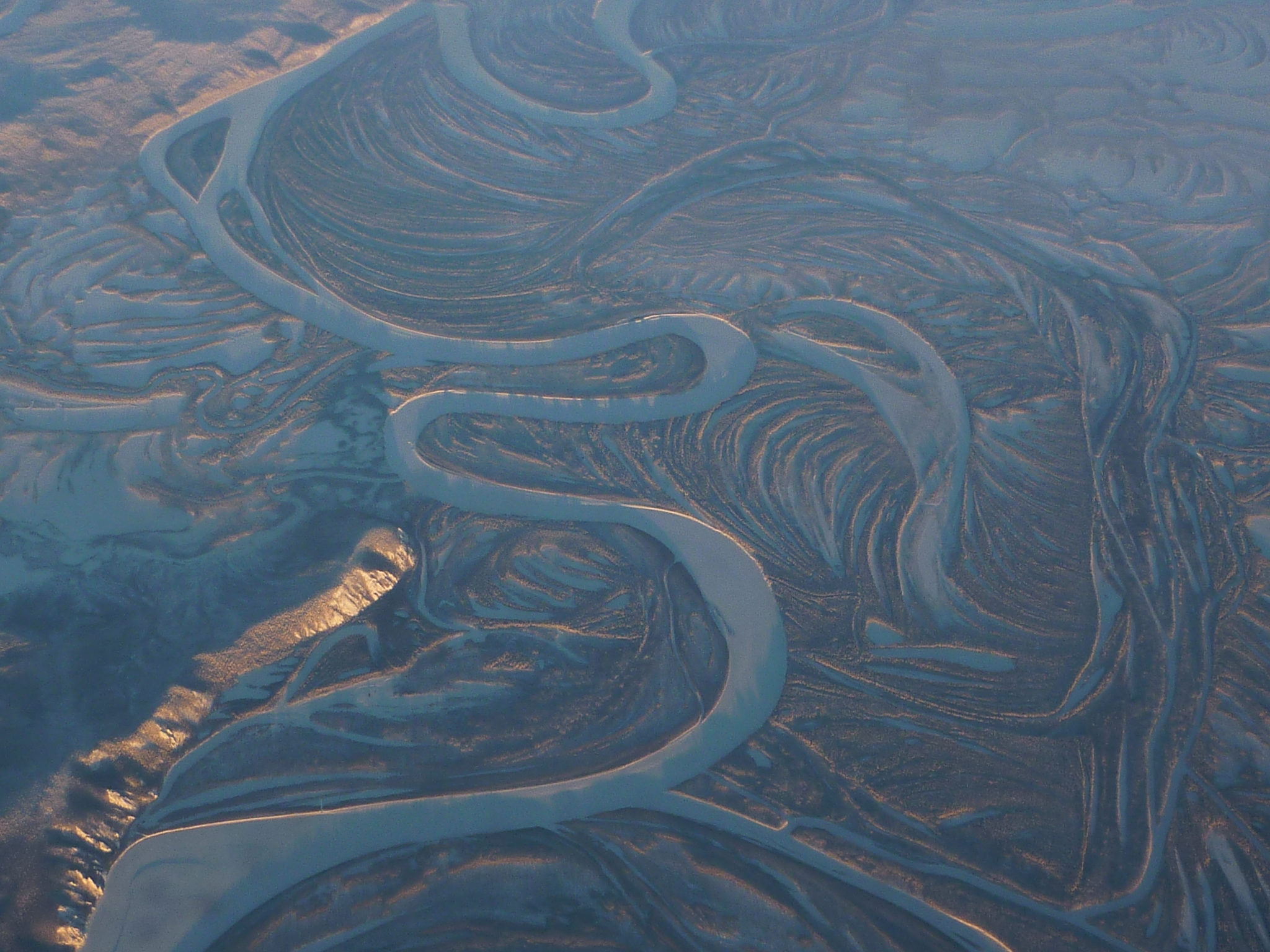 The lower course of the Koyukuk River, just north of its fall into the Yukon. Photo taken from an AA aircraft on a non-stop ORD-PVG flight